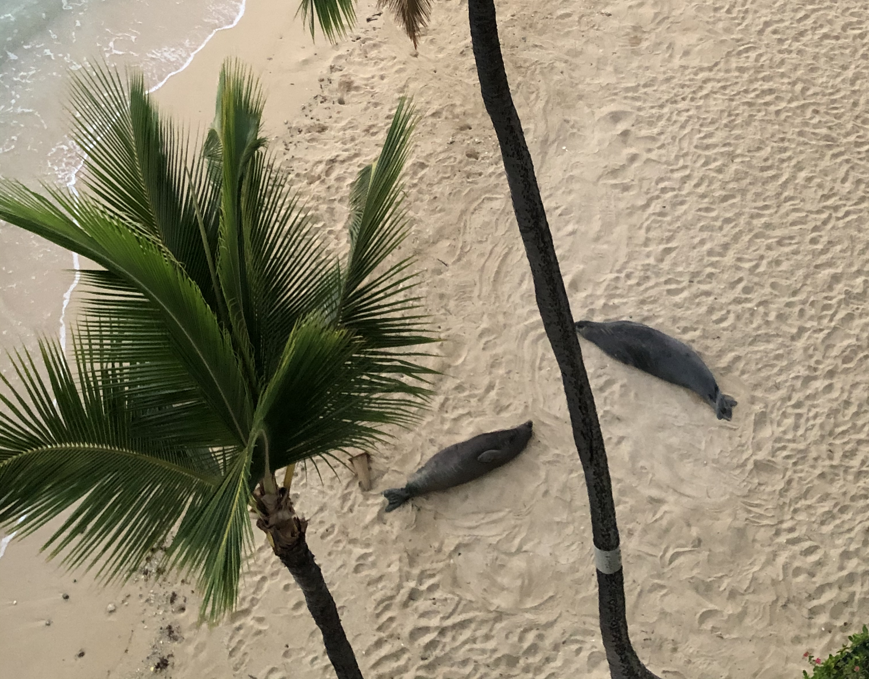 On the afternoon on Friday, November 1, 2019 two came ashore on Kaimana beach in front of Kapiolani Park. One left in mid-morning and the other midday on Saturday, November 2, 2019.